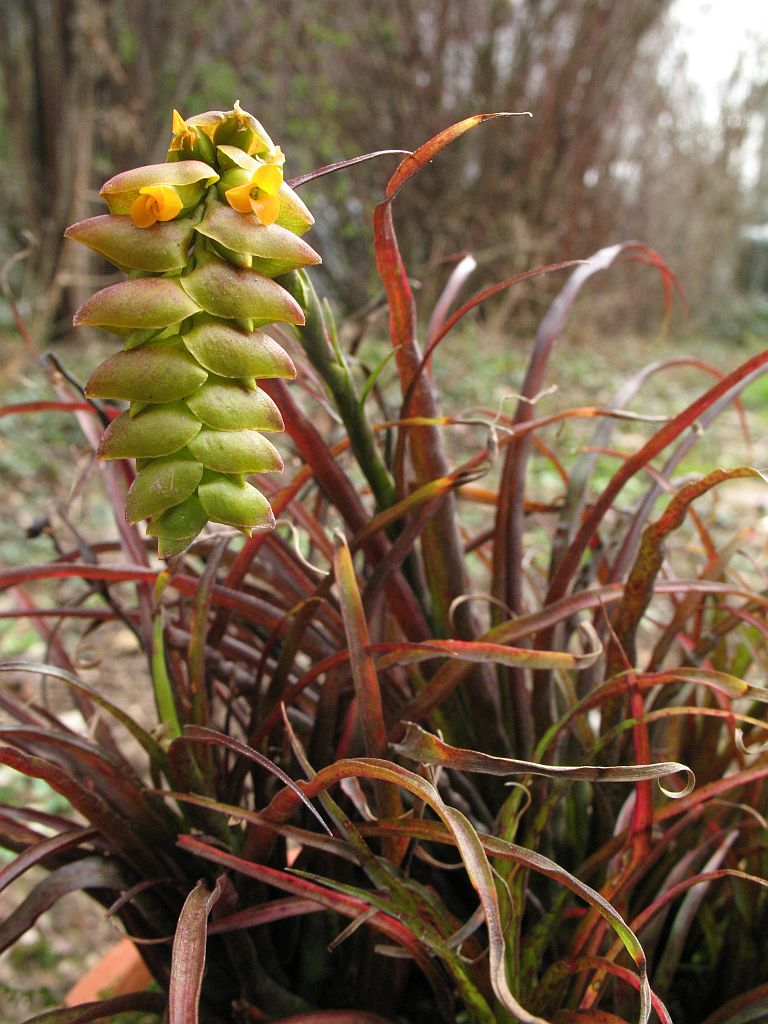 Racinaea crispa, in cultivation at the Botanical Garden of Heidelberg, Germany.